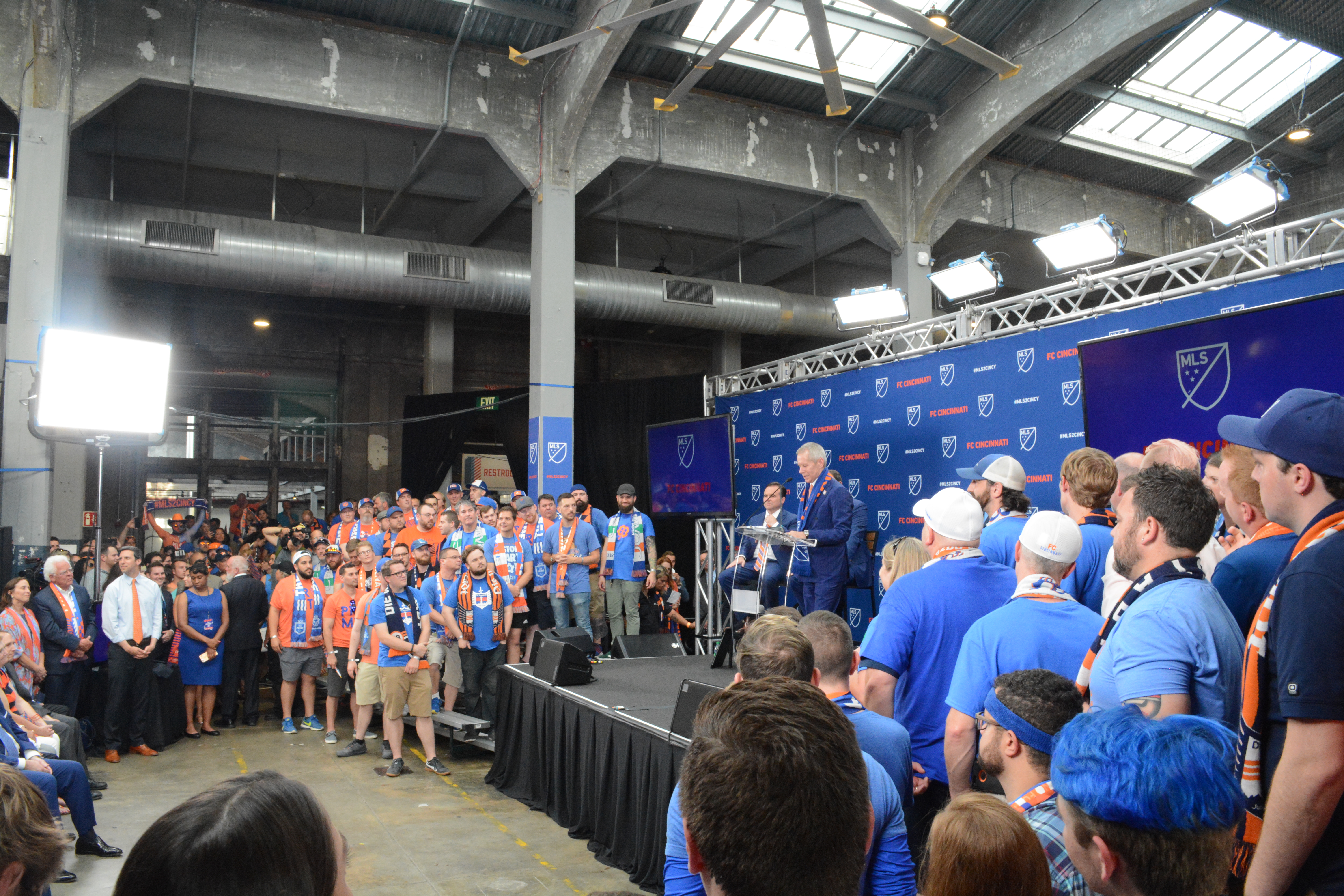 This photo was taken at an FC Cincinnati (FCC) event at Rhinegeist Brewery in Over-the-Rhine, Cincinnati, Ohio, USA on May 29, 2018. At the event, Major League Soccer commissioner Don Garber officially awarded an MLS franchise to FCC. Other speakers at the event included FCC general manager Jeff Berding, FCC owner and CEO Carl Lindner III, Cincinnati mayor John Cranley, and ESPN soccer commentators Adrian Healey and Taylor Twellman. The event was simultaneously livestreamed to a public party at Fountain Square in downtown Cincinnati.